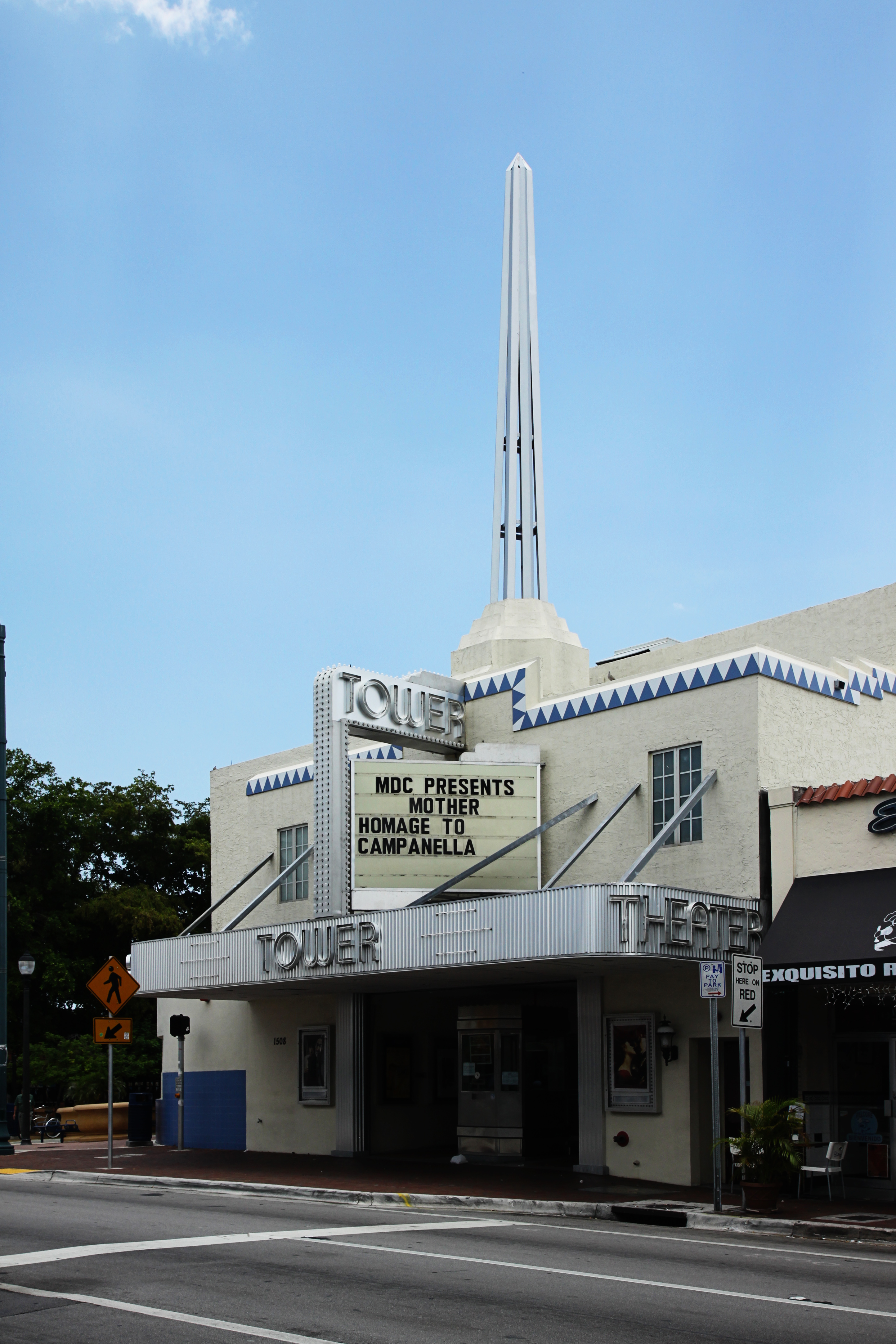 Tower Theater, Art Deco style building located at 1508 SW 8th Street in the Little Havana district of Miami, Florida, USA, Miami.